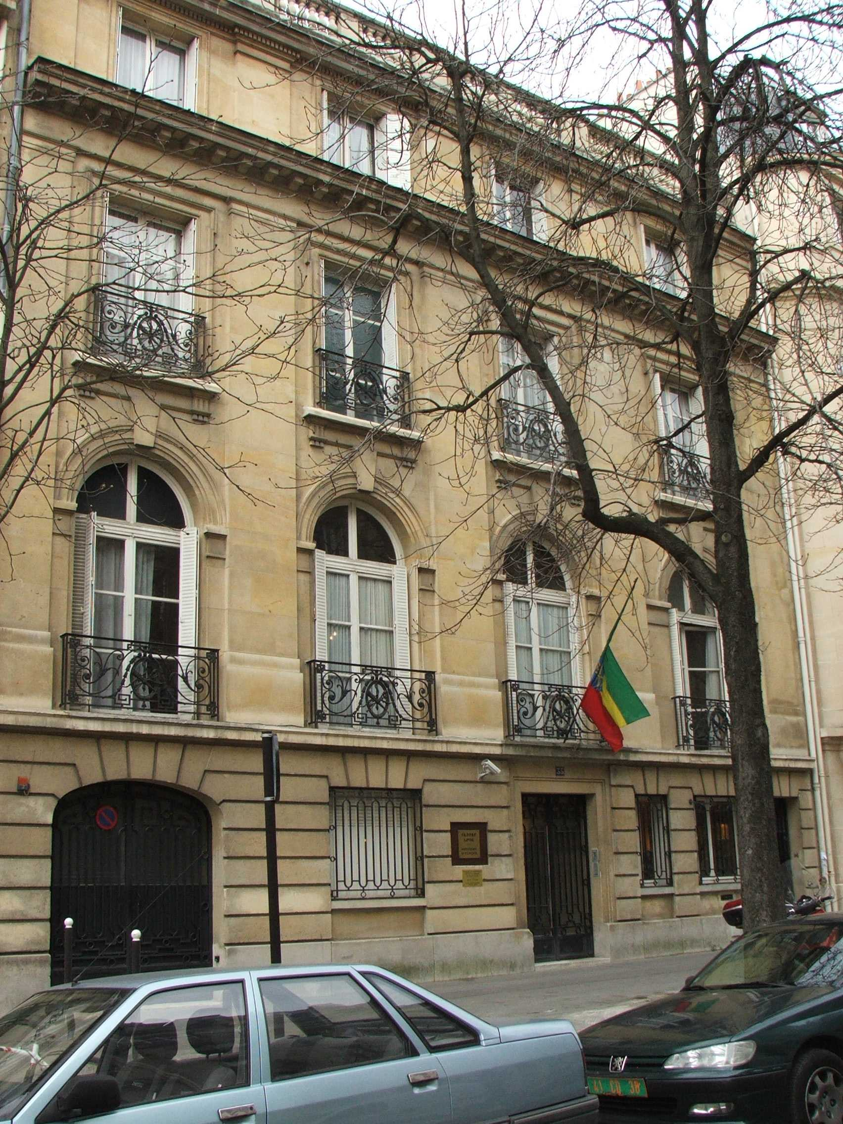 Embassy of Ethiopia in Paris - France.